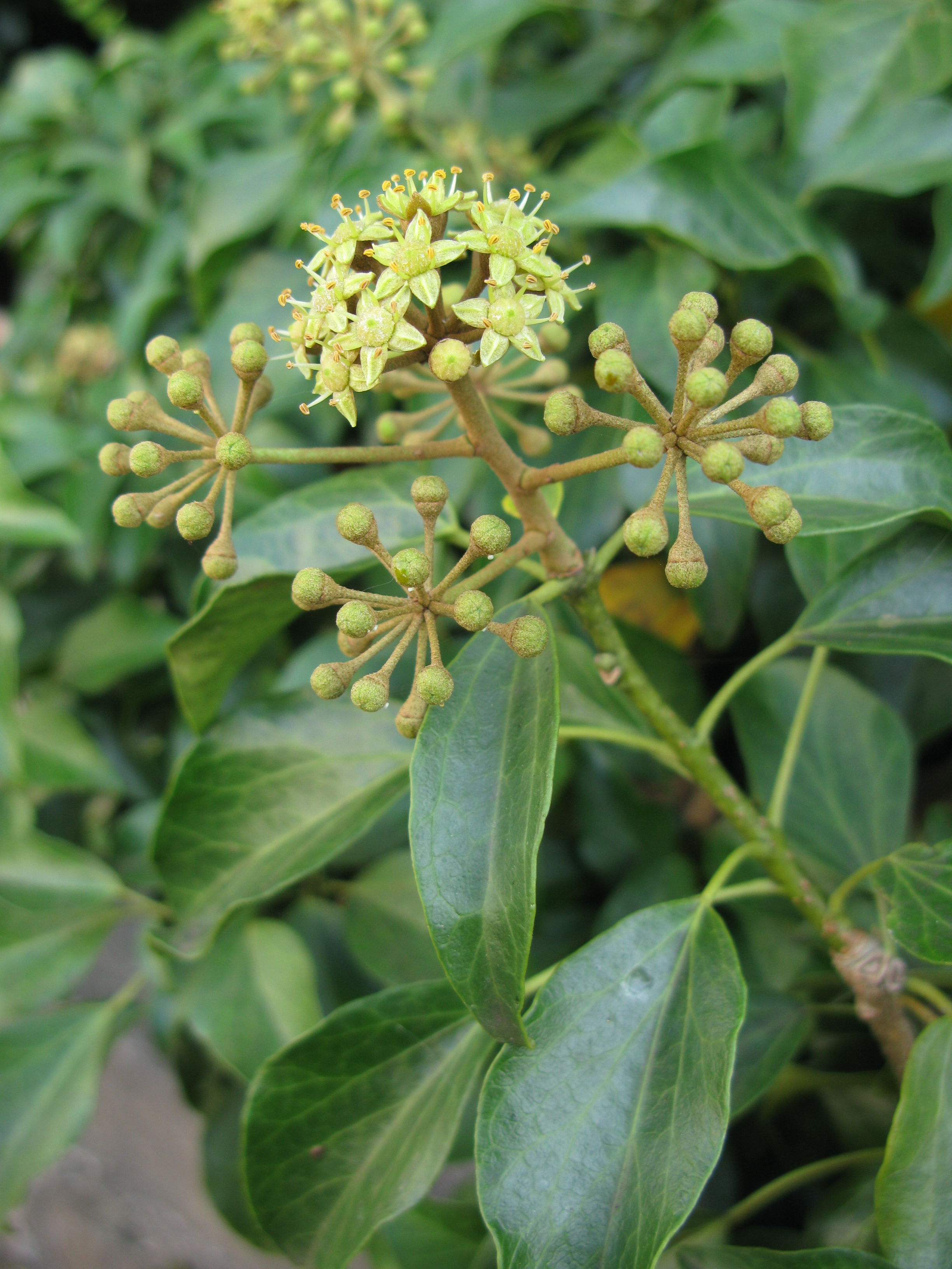 Hedera rhombea, Aizu area, Fukushima pref., Japan